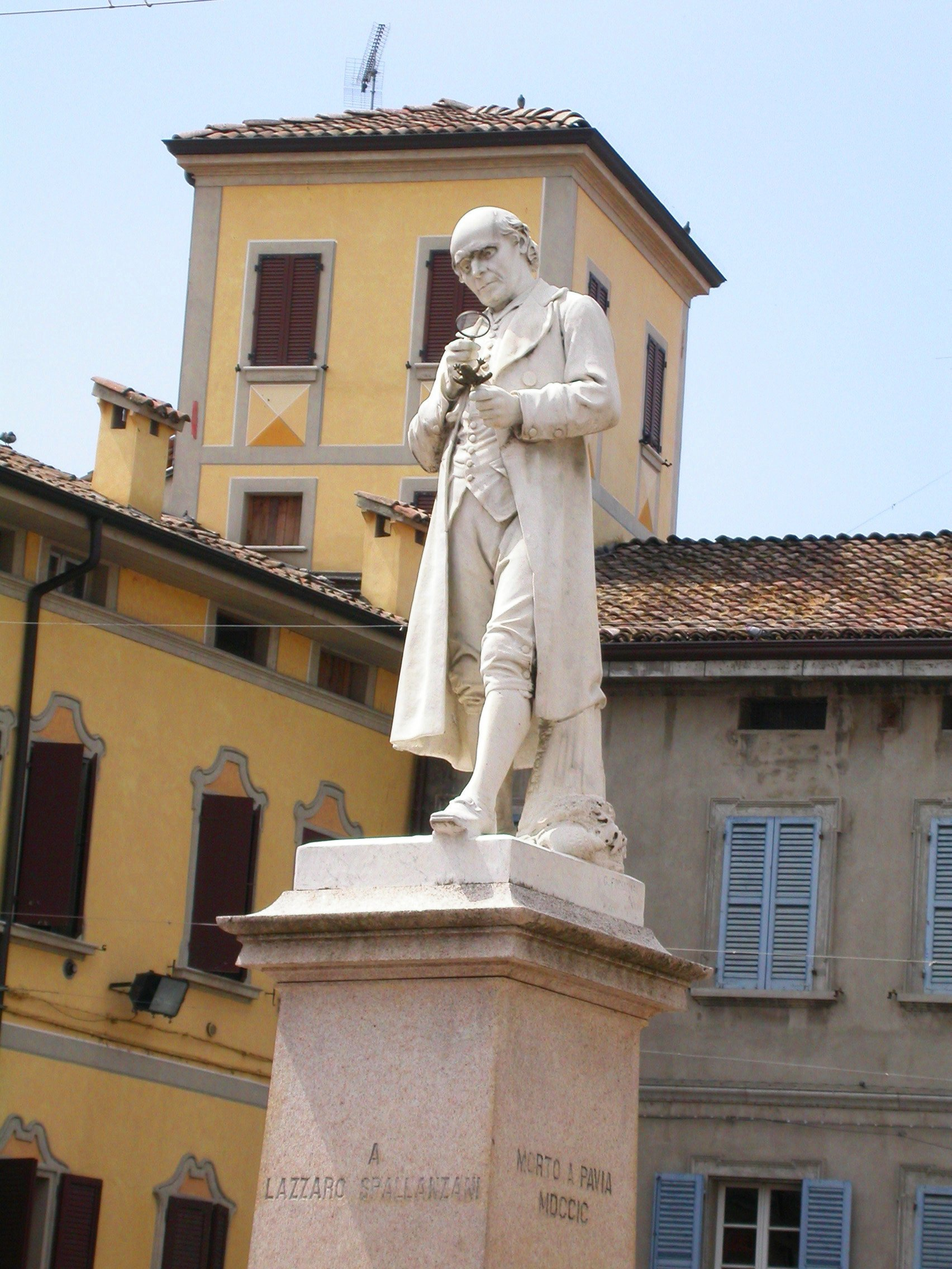 Monument of the scientist Lazzaro Spallanzani